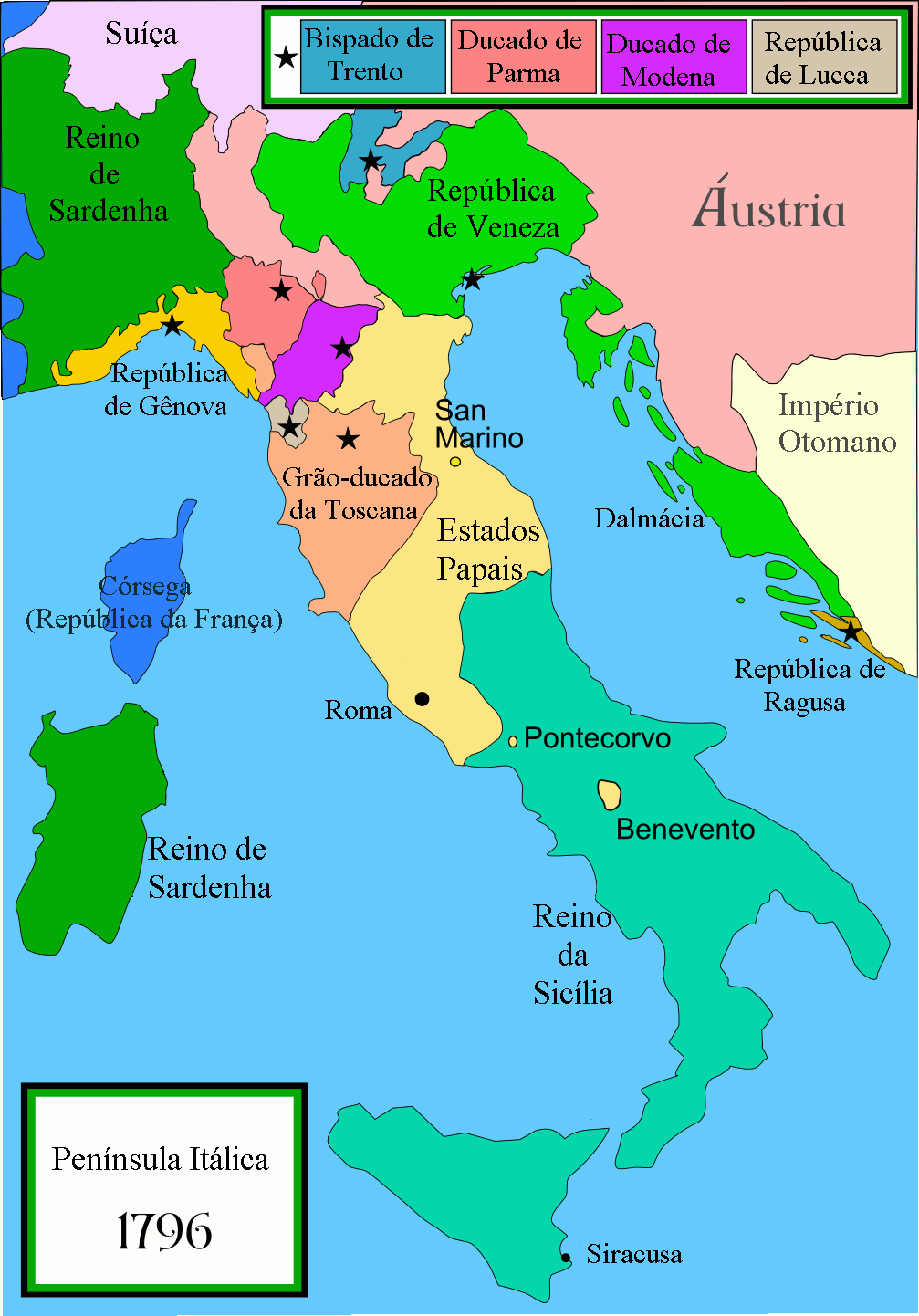 Map of the Italian peninsula in 1796.